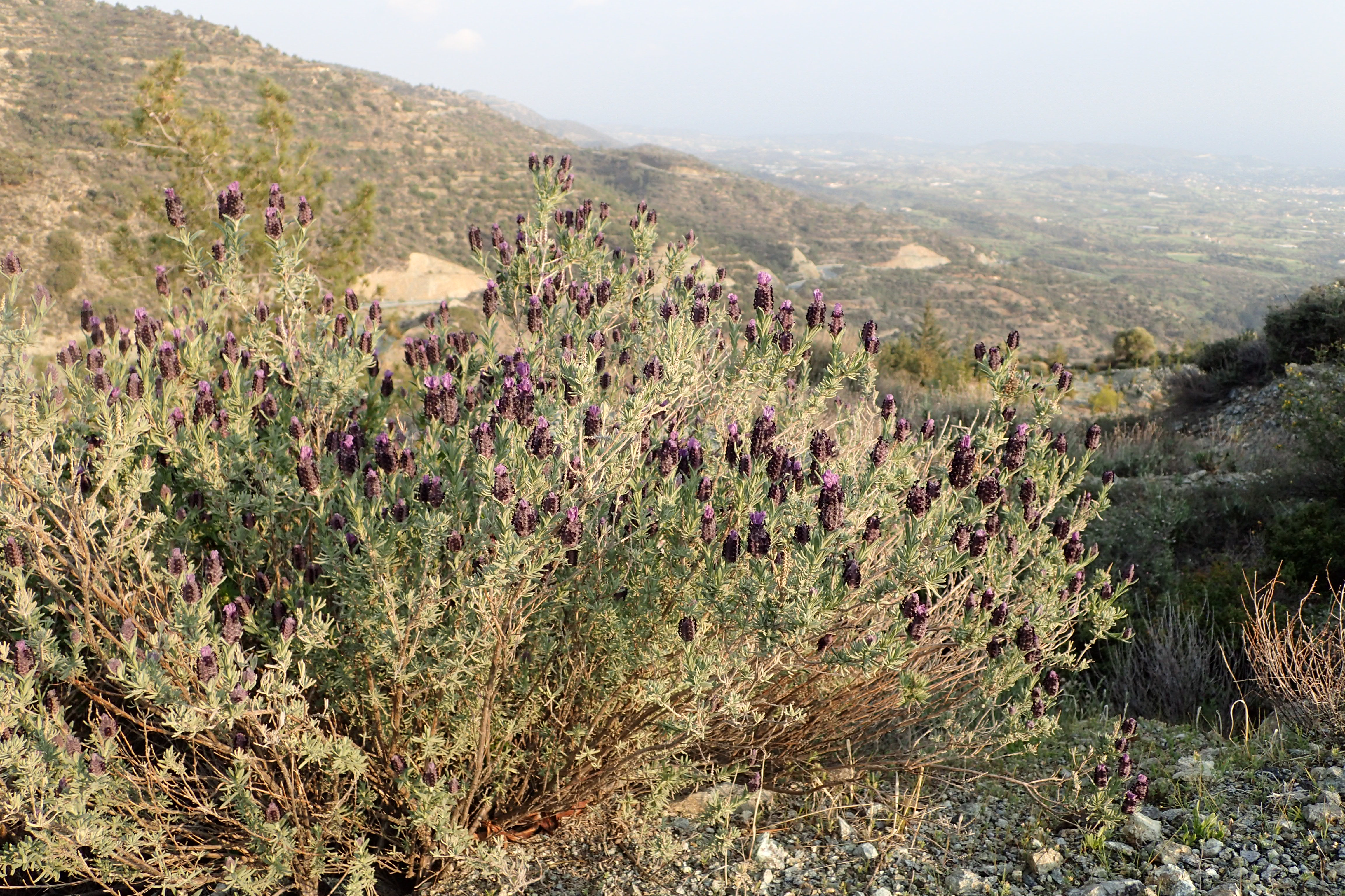 Lavandula stoechas N from Pareklisia, Cyprus